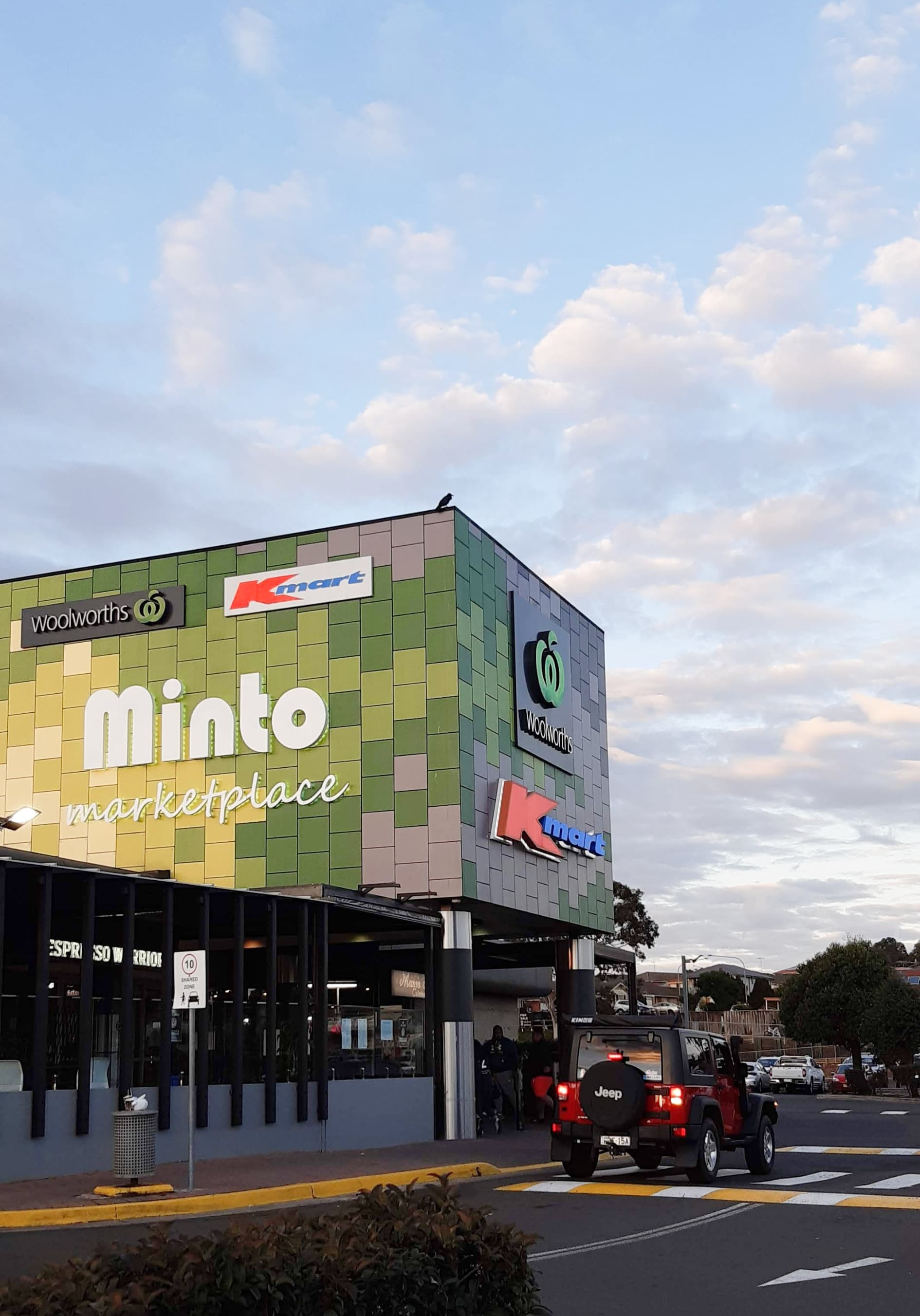 The building had undergone major renovations in 2013.